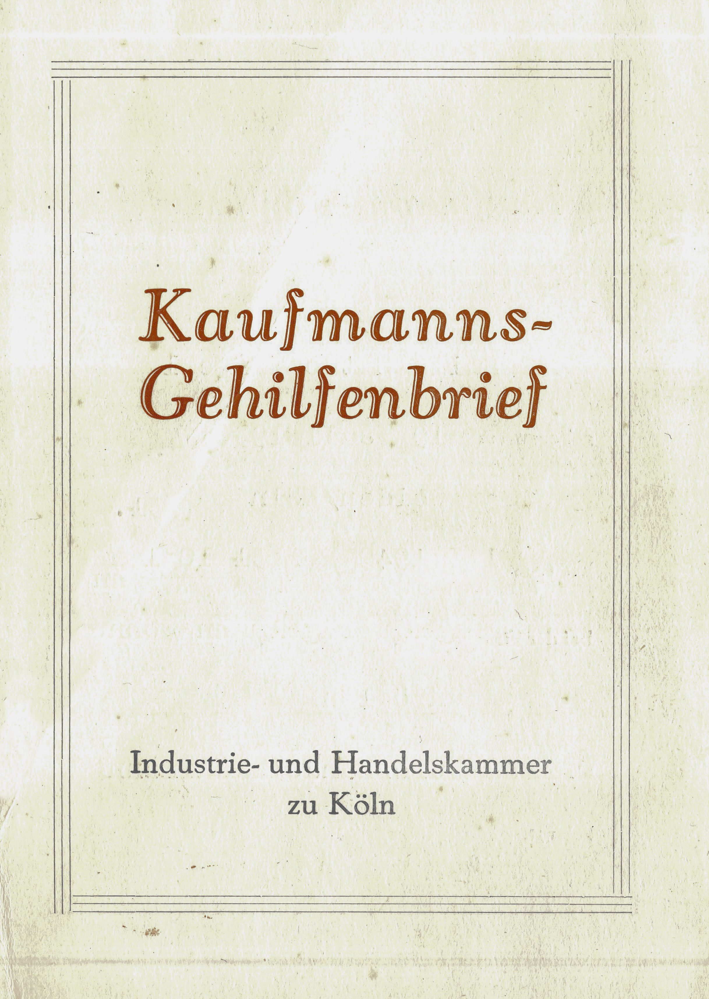 Cologne, Germany: Journeyman Certificate of IHK Köln in the year 1951.